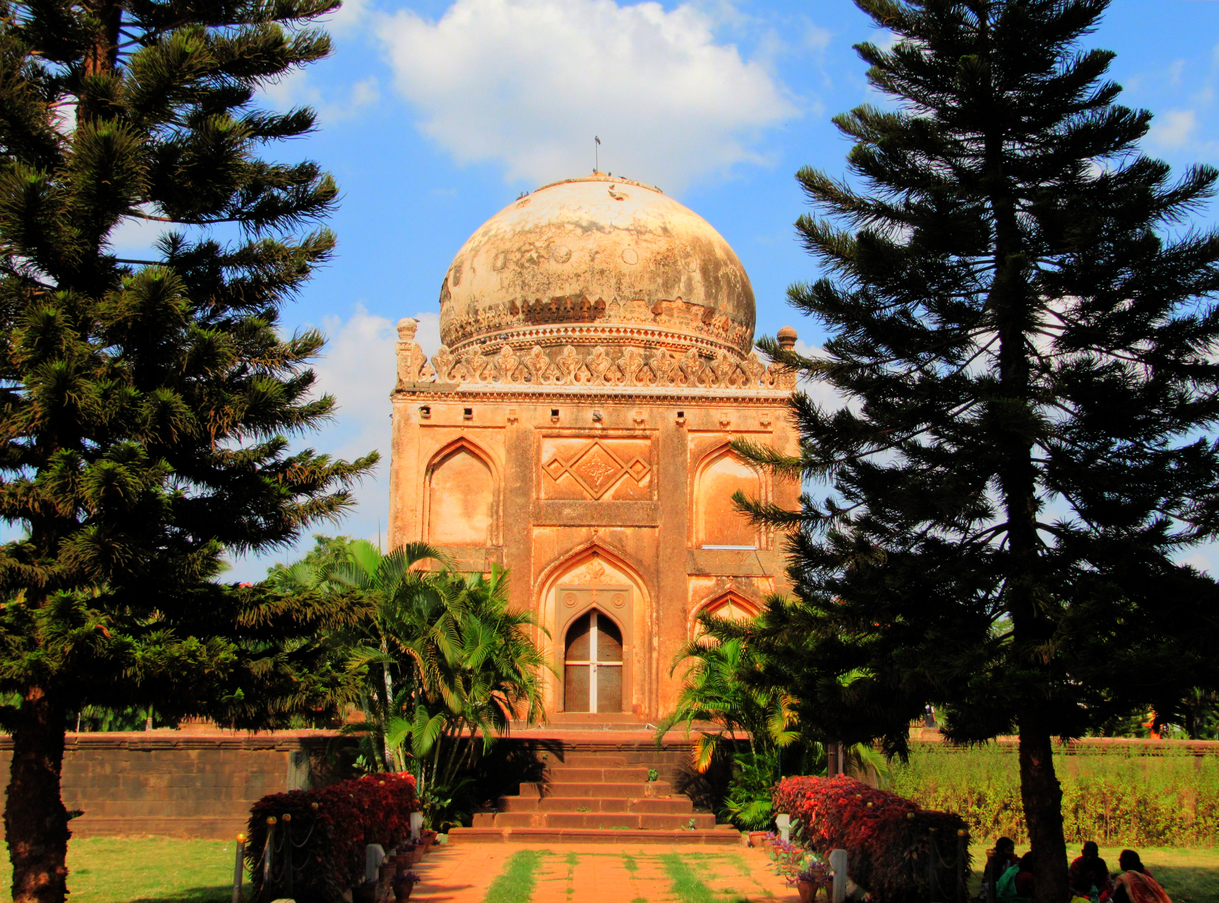 Tombs @ Barid Shahi Park, It is the park where the Baridi Sultans of the Bidar Sultanate have their final rest.